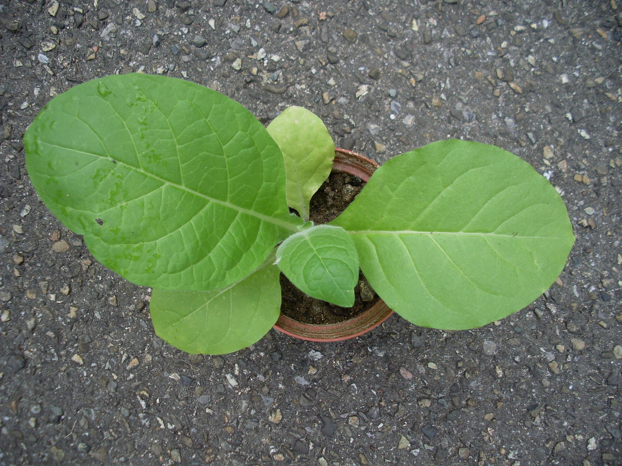 A little tobacco plant, kind: Burley Jupiter